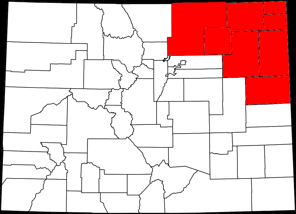 A map of Colorado highlighting Weld County. David Benbennick made this map. It is a simple modification of Image:Map of Colorado counties, blank.svg.